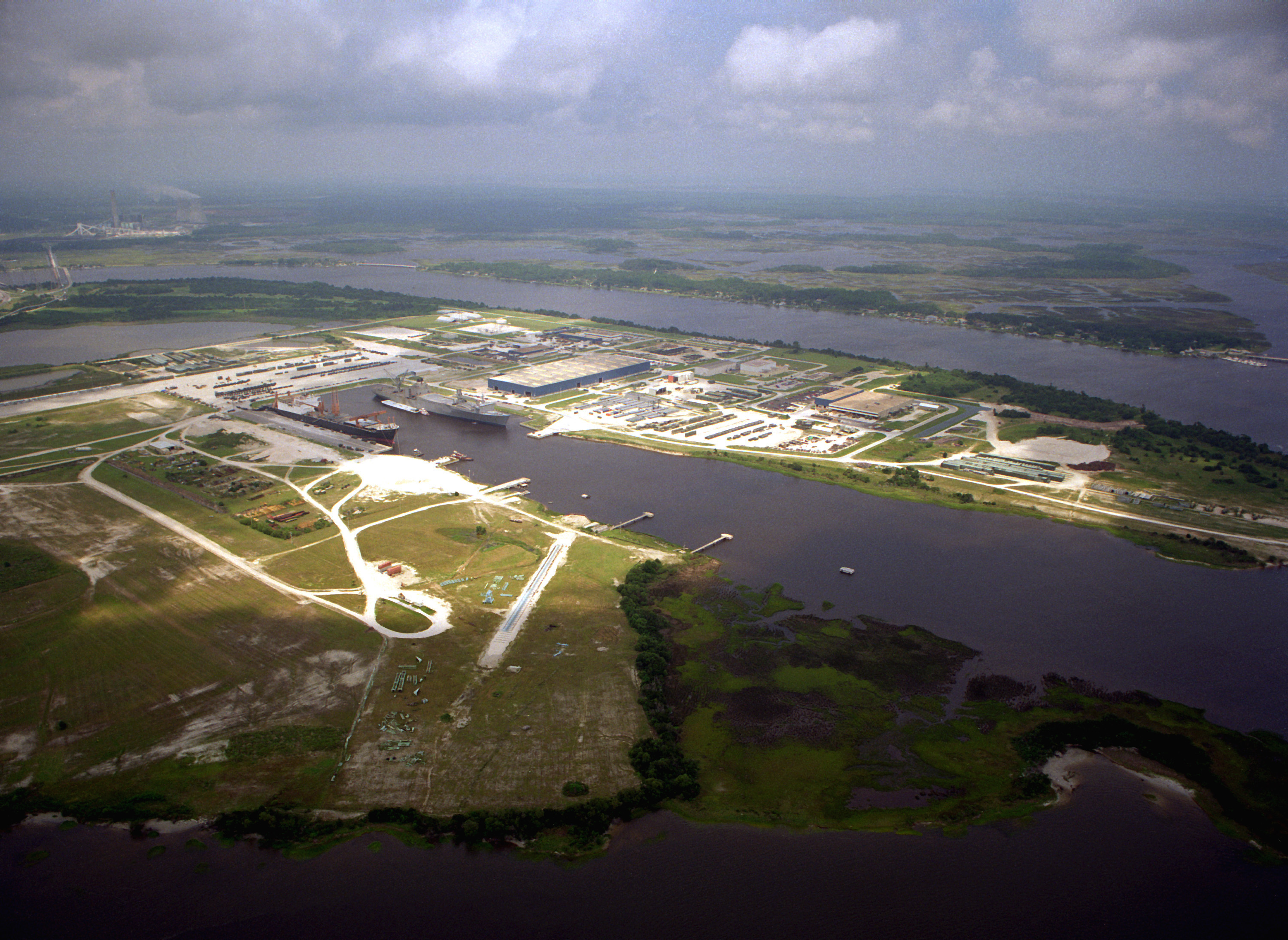 From the Department of Defense image search website. Picture comes up if you search for Blount Island ID: DN-SC-95-00587 Service Depicted: Marines High oblique, facing south showing the Blount Island Command, a USMC Maritime Prepositioning Facility on the St. Johns River north of Jacksonville. Location: BLOUNT ISLAND, FLORIDA (FL) UNITED STATES OF AMERICA (USA)